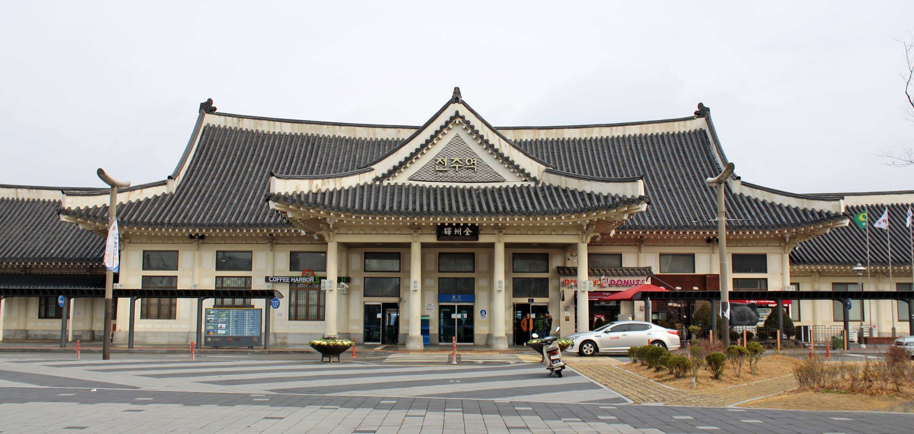 3 Dec 2014